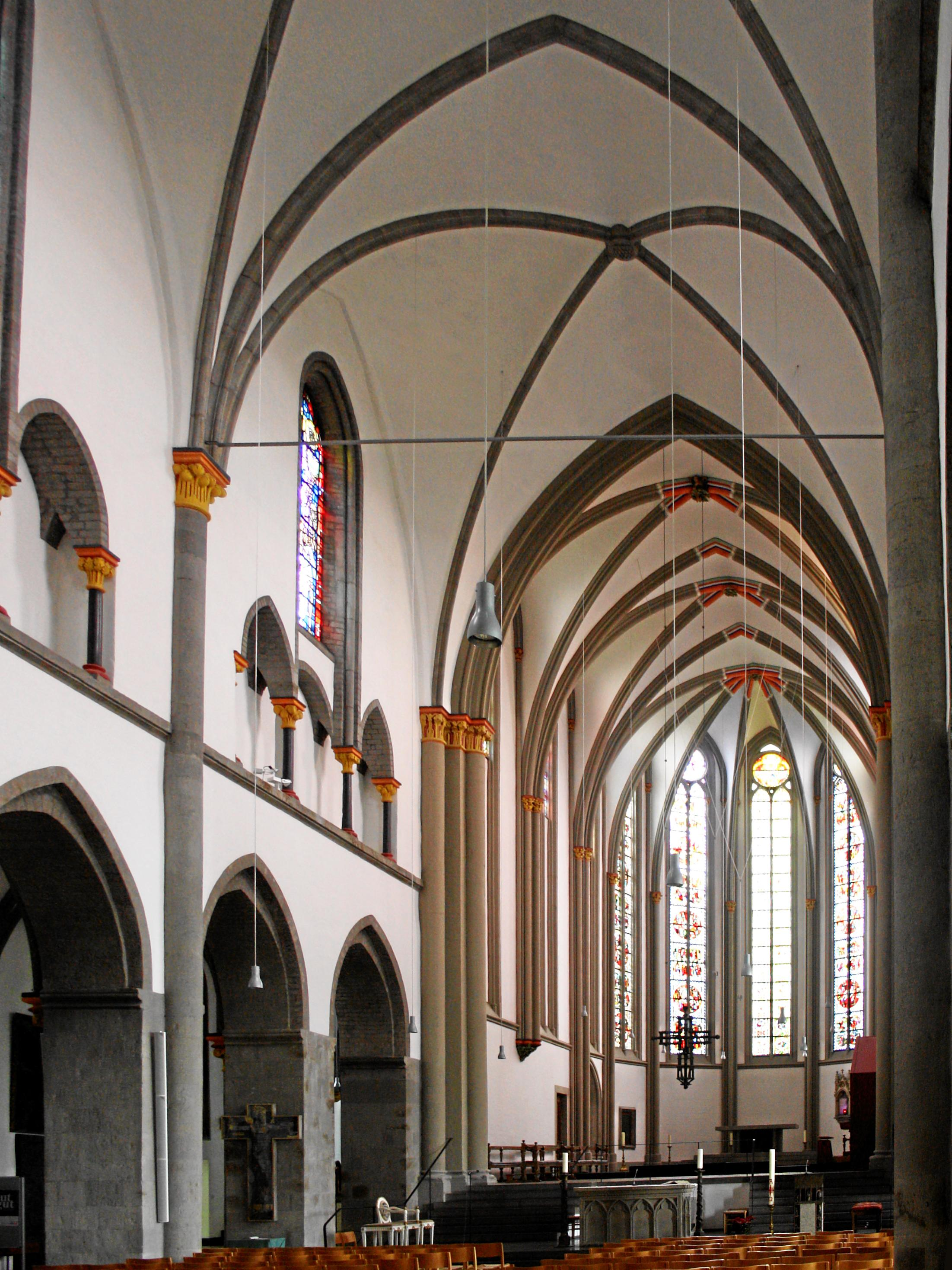 Mönchengladbach, Germany. Roman-catholic church St. Vitus, nave towards East.